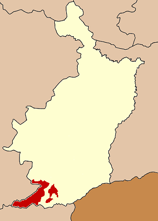 Dong Yai wildlife Sactuary in Buriram, Thailand. The sanctuary is a part of "Dong Phayayen - Khao Yai Forest Complex", which is listed to World Heritage. This map is made roughly from the data of the report of UNESCO